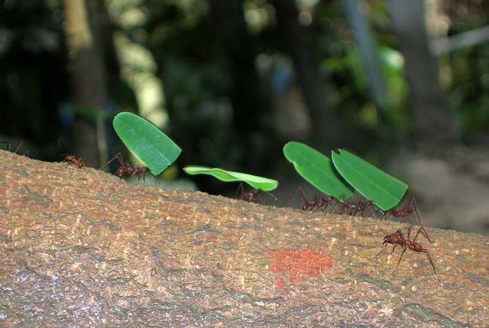 Leaf cutter ants , Iquitos , Peru.